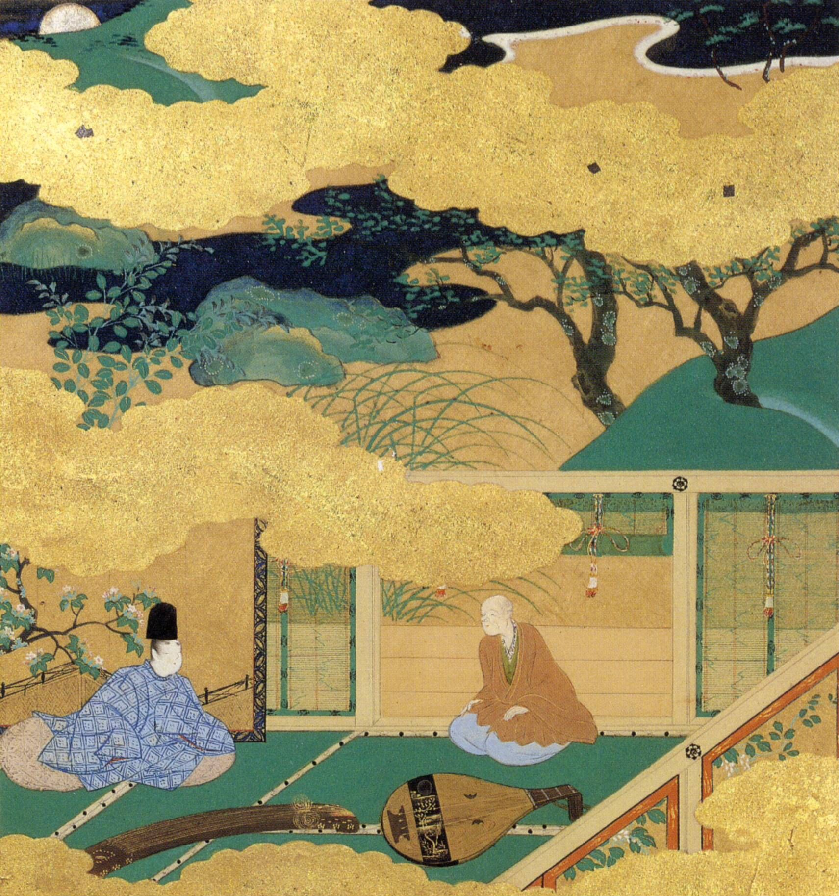 Genji-Monogatari Detail